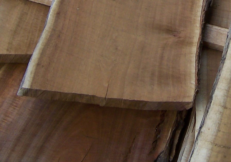 Réunion mountain tamarin (Acacia heterophylla) - Boards